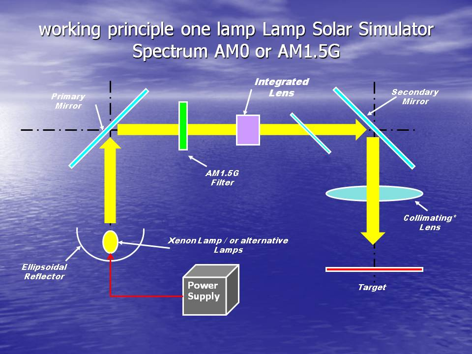 working principle of a 1 Lamp Solar Simulator, typically are used a Xenon short arc lamp